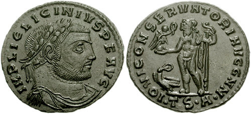 LICINIUS I. 308-324 AD. Æ Follis (24mm, 3.85 gm). Thessalonica mint. Struck 312-313 AD. IMP LIC LICINIVS P F AVG, laureate, draped, and cuirassed bust right IOVI CONSERVATORI AVGG NN, Jupiter standing left, holding Victory standing right on globe and holding wreath, and sceptre; eagle standing left at feet, head reverted, holding wreath in beak; •TS•A•. RIC VI 60.